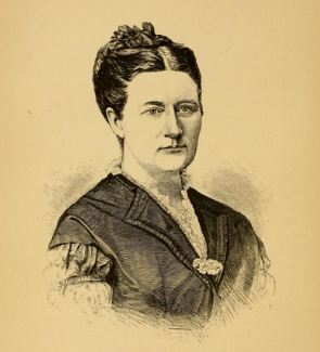 Clara A. Swain, M.D. (ca. 1881)